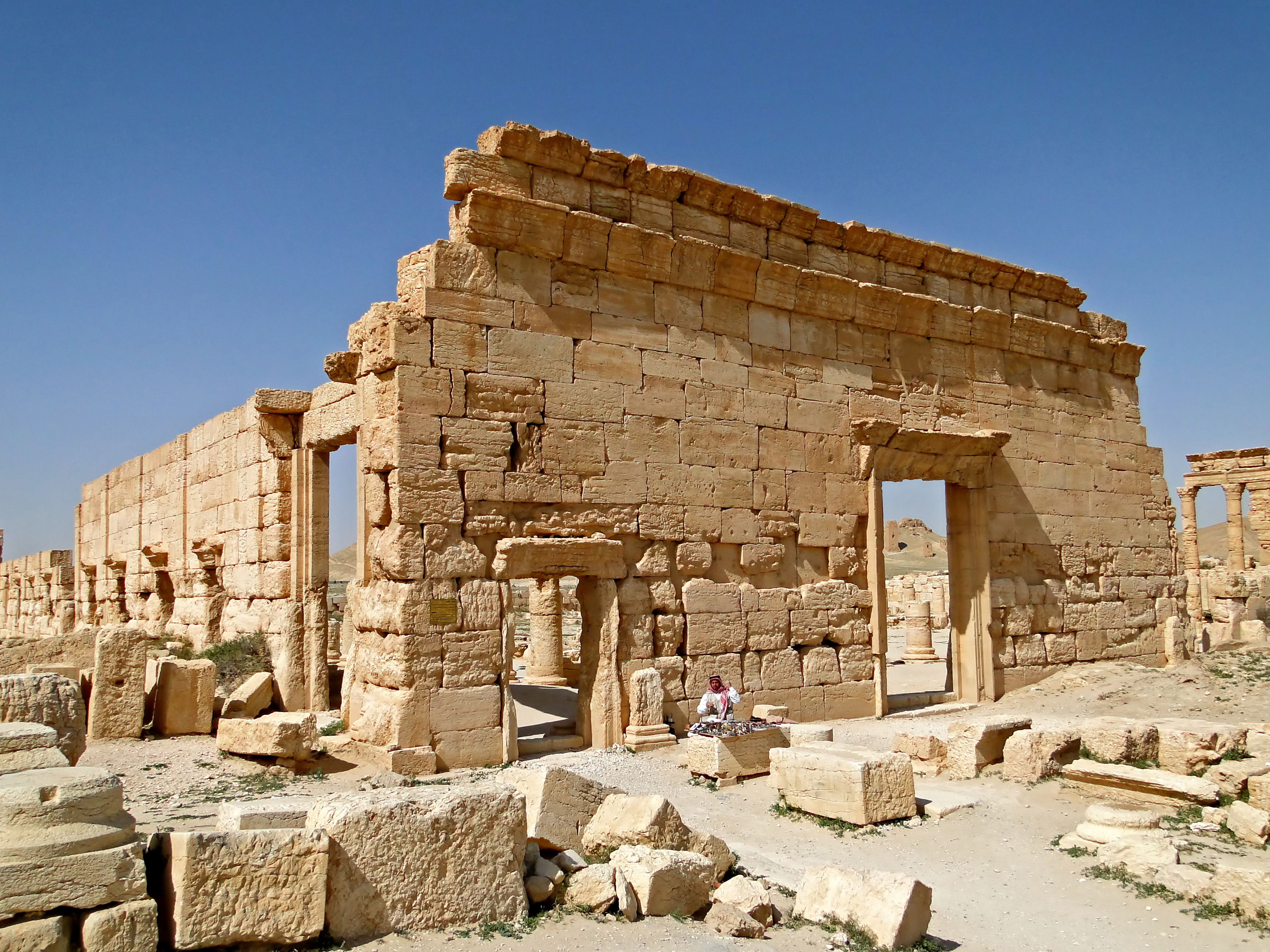 The agora of Palmyra|, Syria